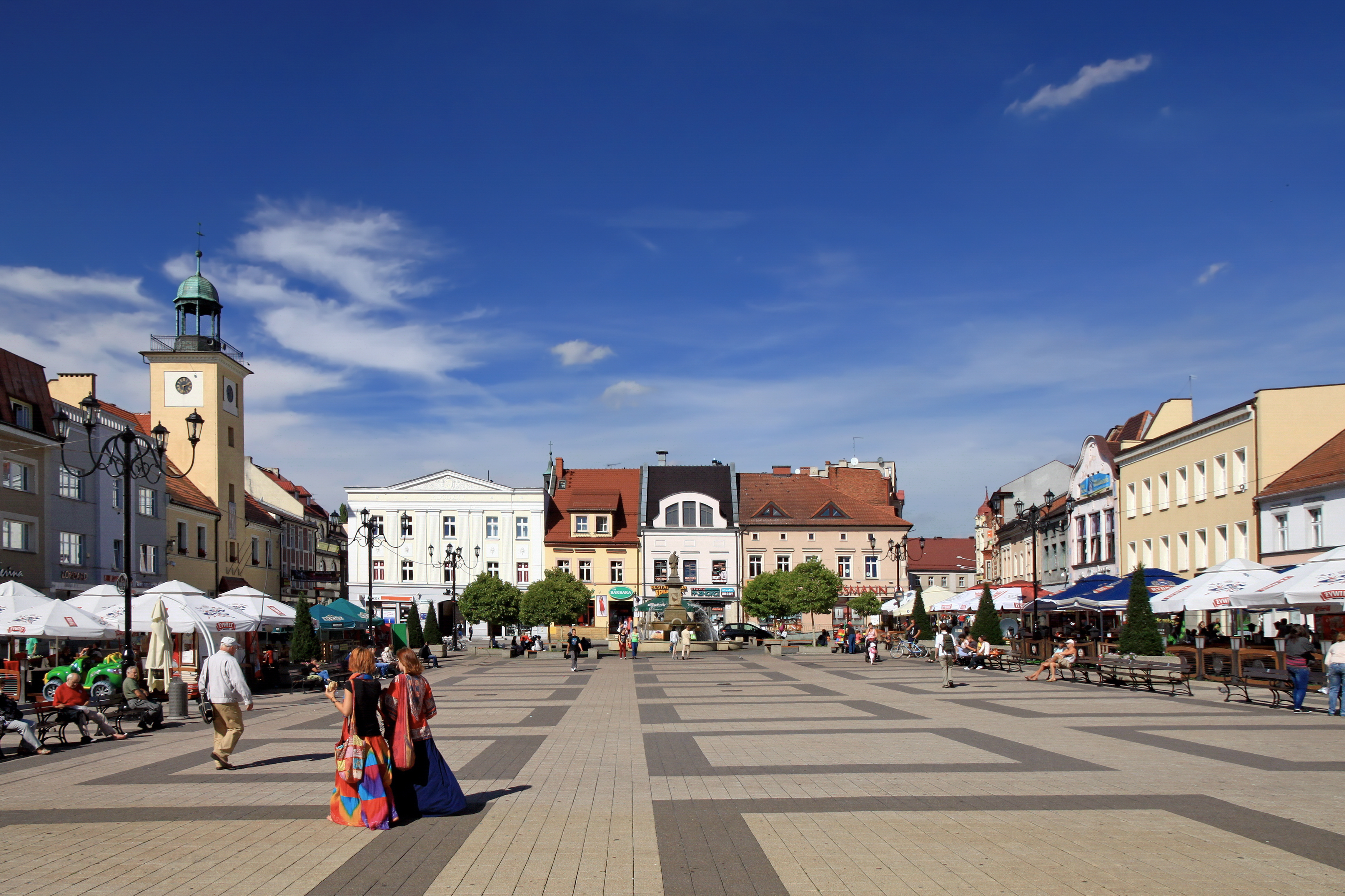 Market Square in Rybnik